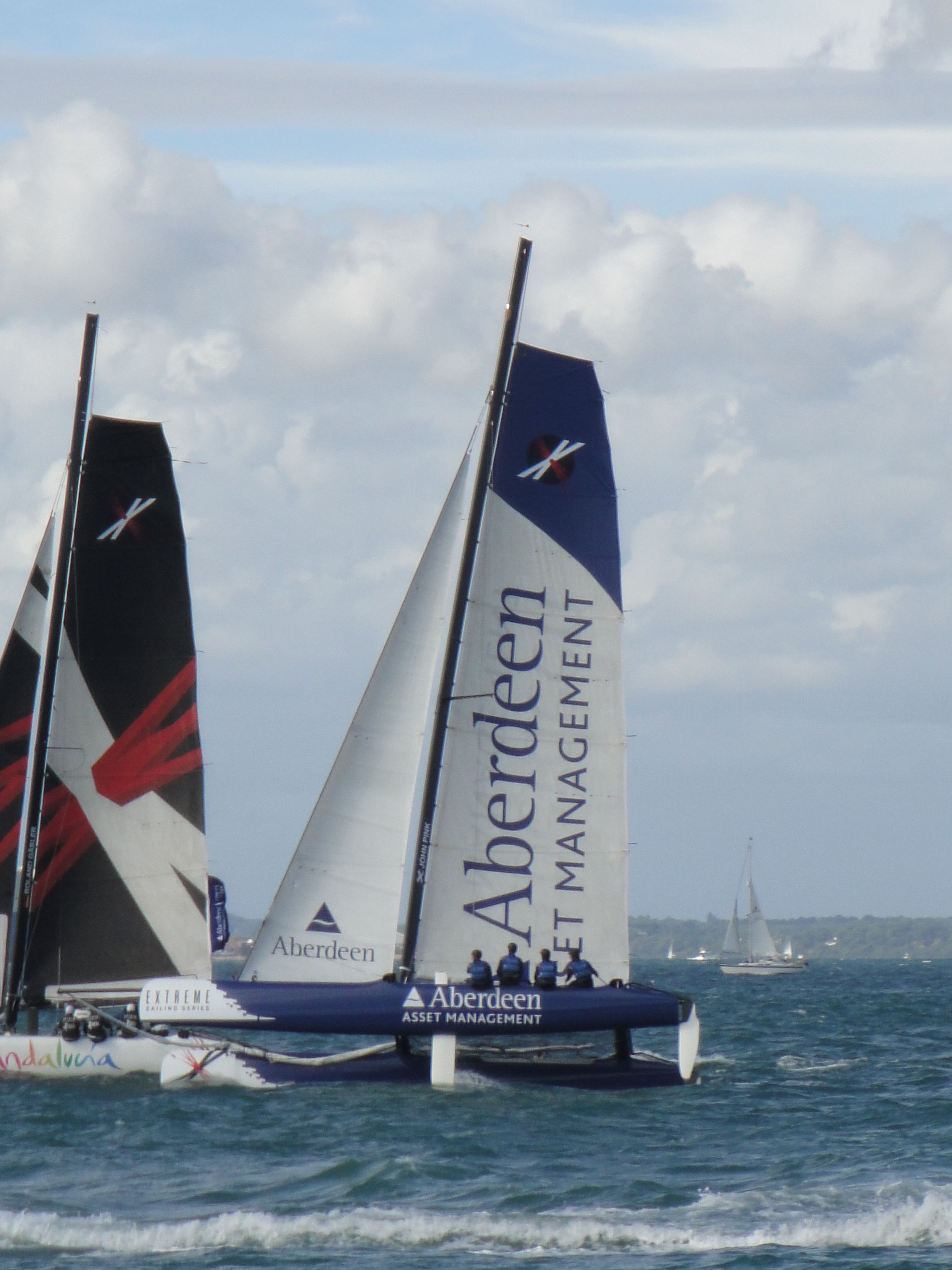 Extreme 40 class sailing catamarans, seen racing off Egypt Point, Cowes, Isle of Wight during Cowes Week in 2011. Cowes was a stage on the Extreme 40 races for 2011. Races were run off Egypt Point (by the Extreme 40 tent), and were separate from the standard Cowes Week races (that start from the Royal Yacht Squadron). This is the Aberdeen Asset Management boat.